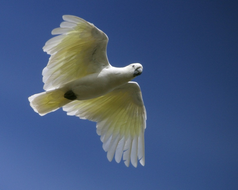 A Sulphur-crested Cockatoo flying over Luera, Blue Mountains, NSW, Australia.